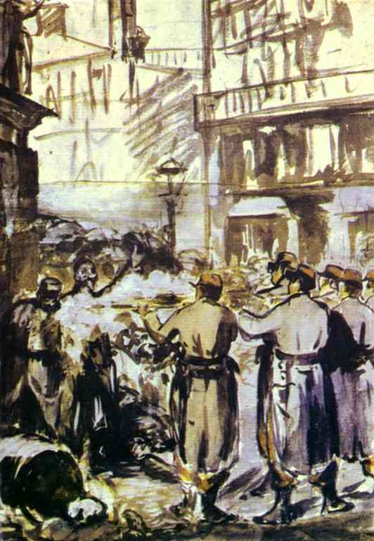 Edouard Manet. The Barricade (Civil War). 1871. Ink, wash and watercolor on paper. Szepmuveseti Muzeum, Budapest, Hungary.